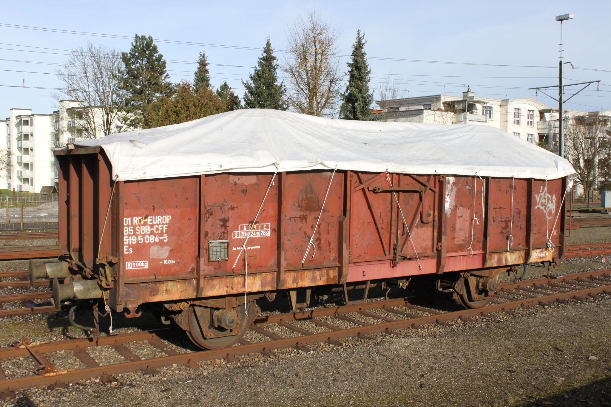 SBB CFF FFS Es 01 85 519 5 084-5, 14 years after ist withdrawal at Bremgarten West train station.